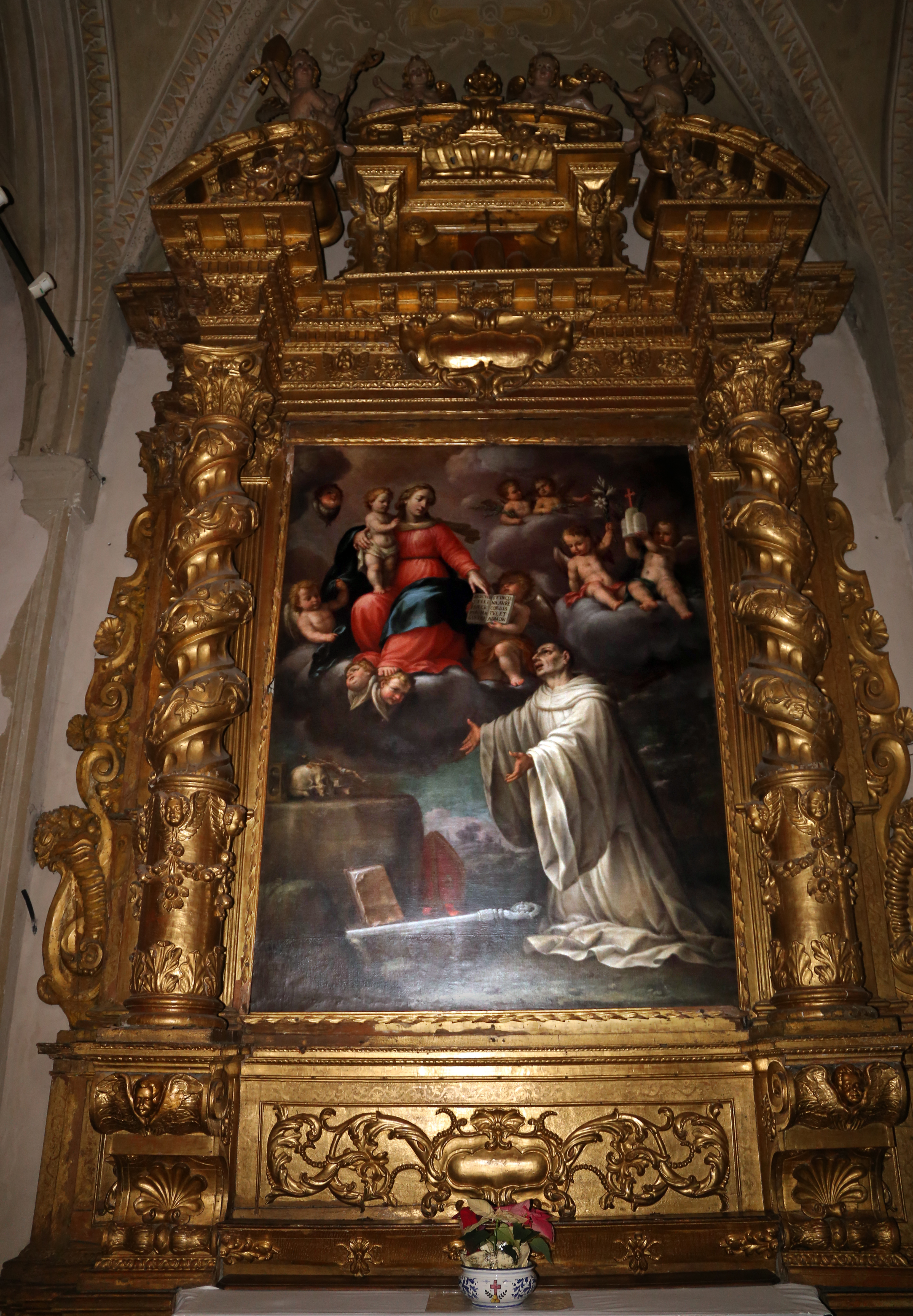 San Giorgio fuori le Mura (Ferrara)